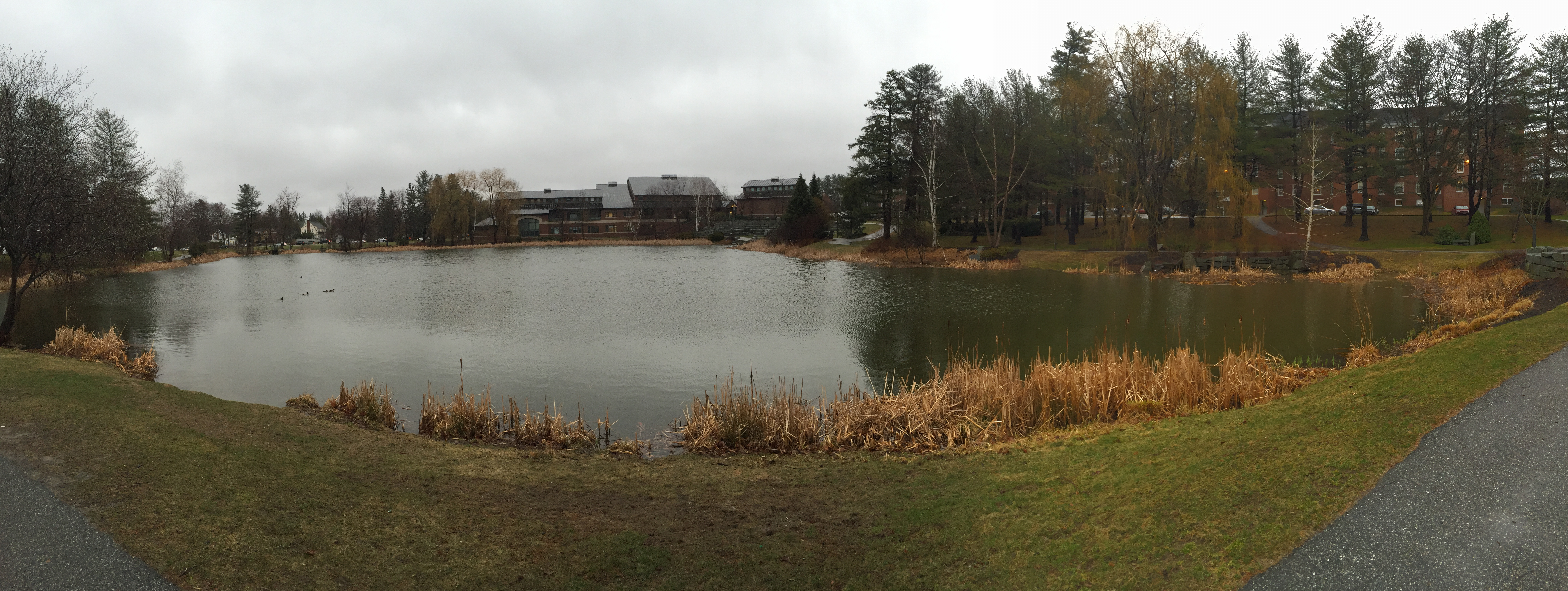 Lake Andrews at Bates College